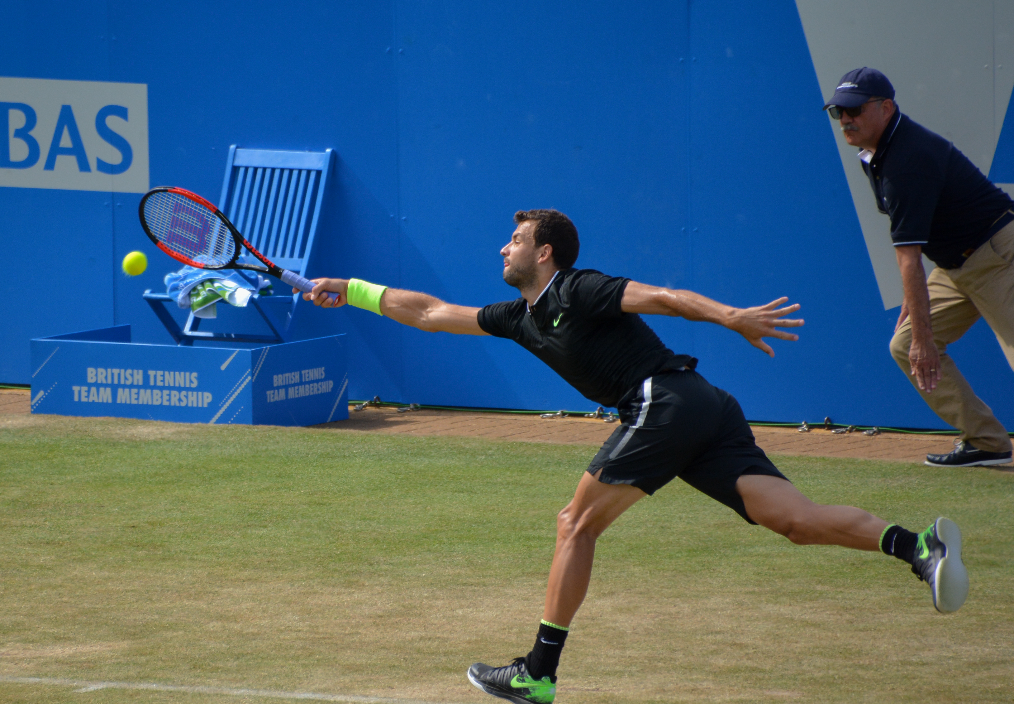 Aegon Championships 2017.